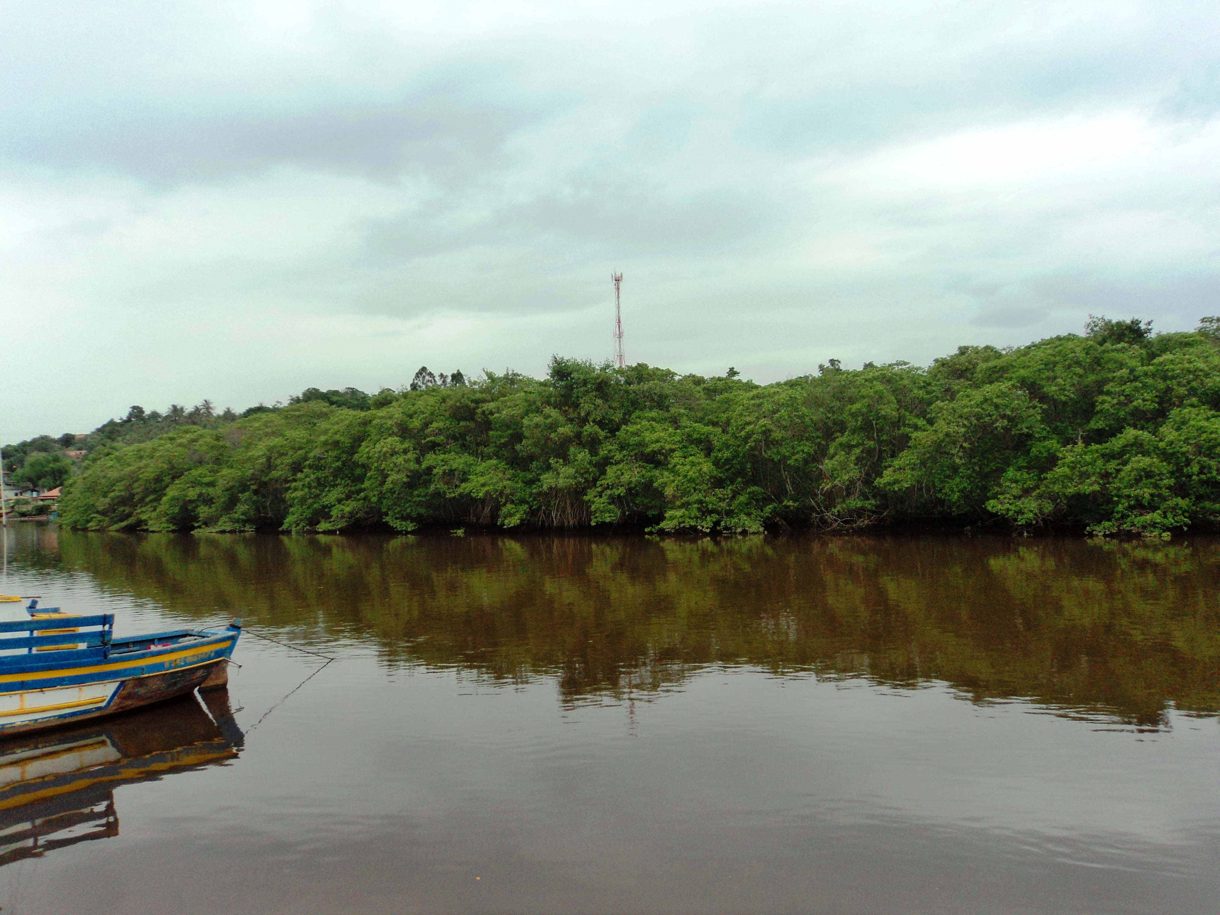 Mangrove in Piúma, Espírito Santo, Brazil.